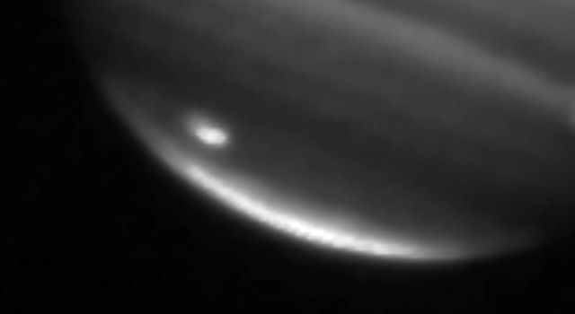 This image shows a large impact on Jupiter's south polar region captured on July 20, 2009, by NASA's Infrared Telescope Facility in Mauna Kea, Hawaii.